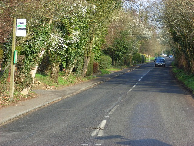 Sonning Lane, Sonning Looking along the B4446 as it leads towards the village from the A4. A spring-like February morning with early blossom in the trees.